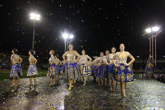 Bairro Norte quarter tricanas